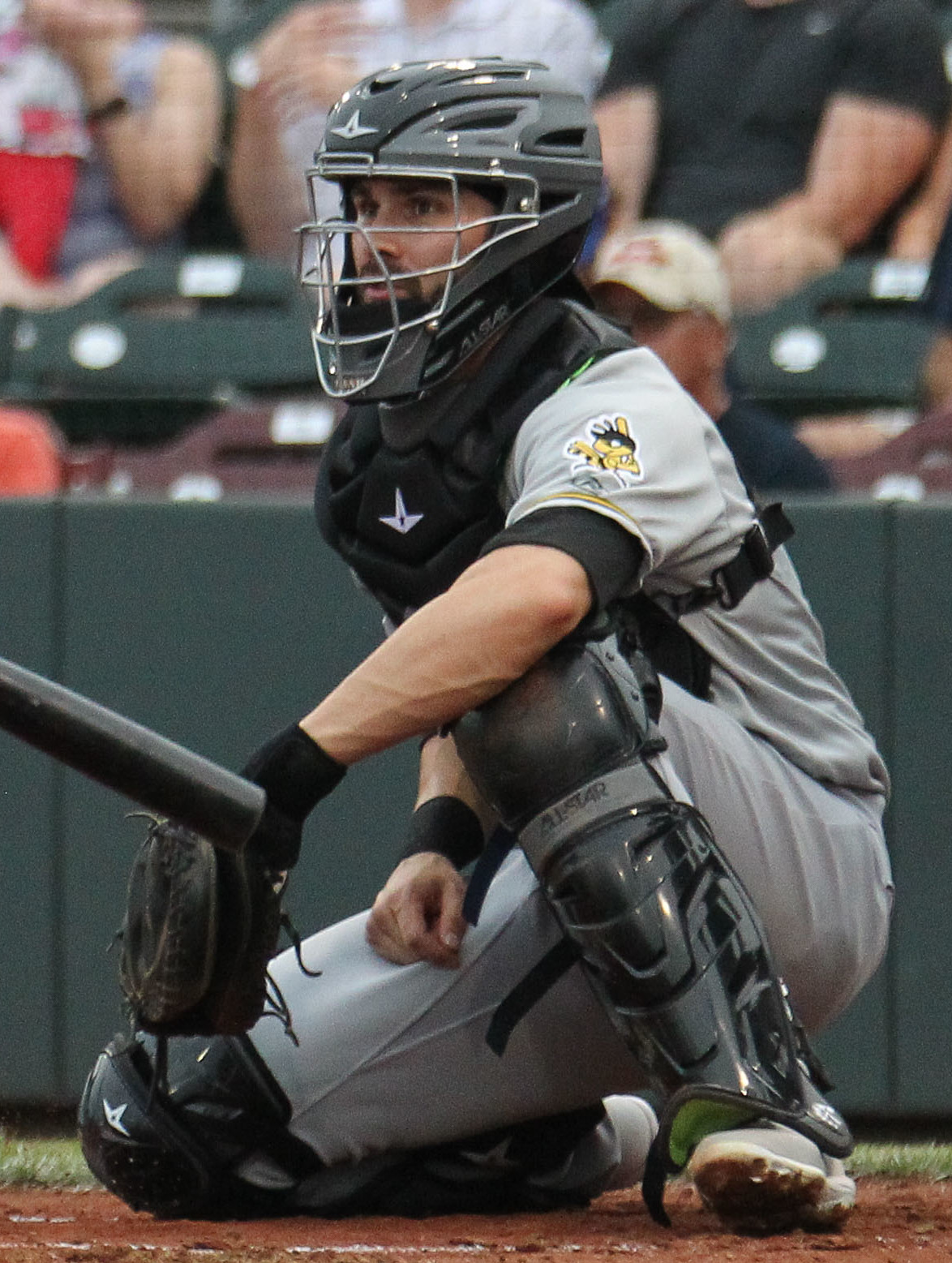 Elier Hernandez of the Omaha Storm Chasers follows through on a swing during a 2019 game at Werner Park in Nebraska